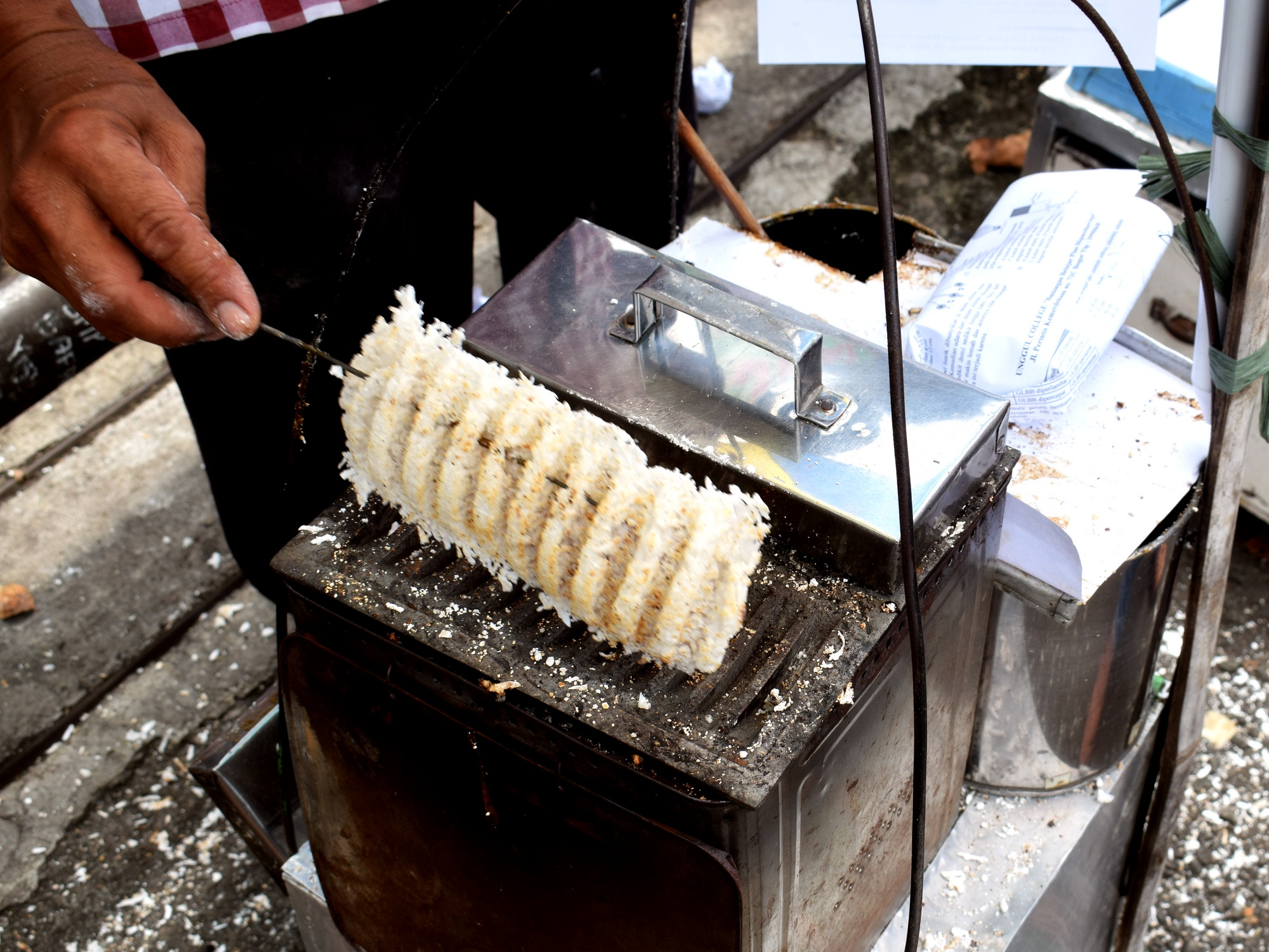 Kue rangi (made of tapioca flour mixed with grated coconut), ready to serve. Bogor, West Java, Indonesia.